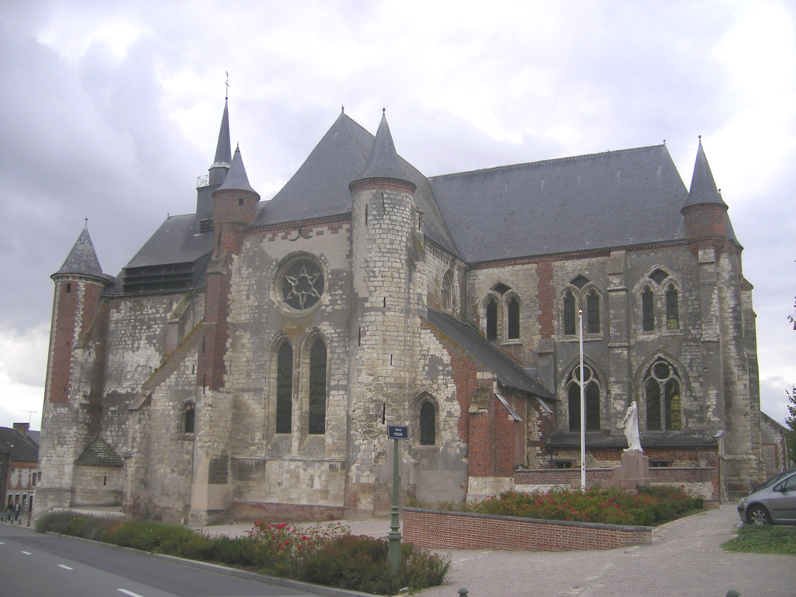 Montcornet